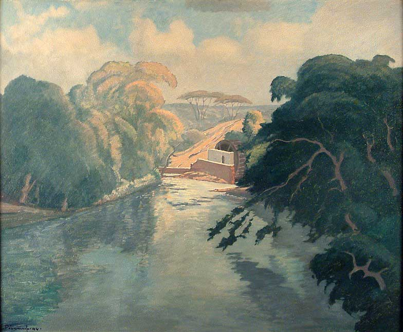 Pierneef, Jakob Hendrik, Watermill near Stellenbosch, 1944, oil on board, 540 x 655 mm